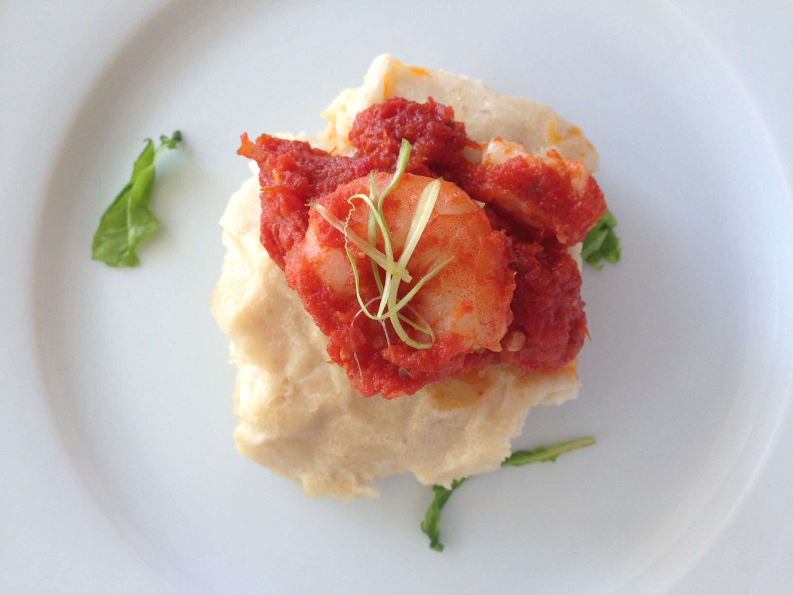 Steamed beans pudding and spicy pepper sauce eaten by yoruba people in Nigeria. Recipe available on This is an image of food from Nigeria